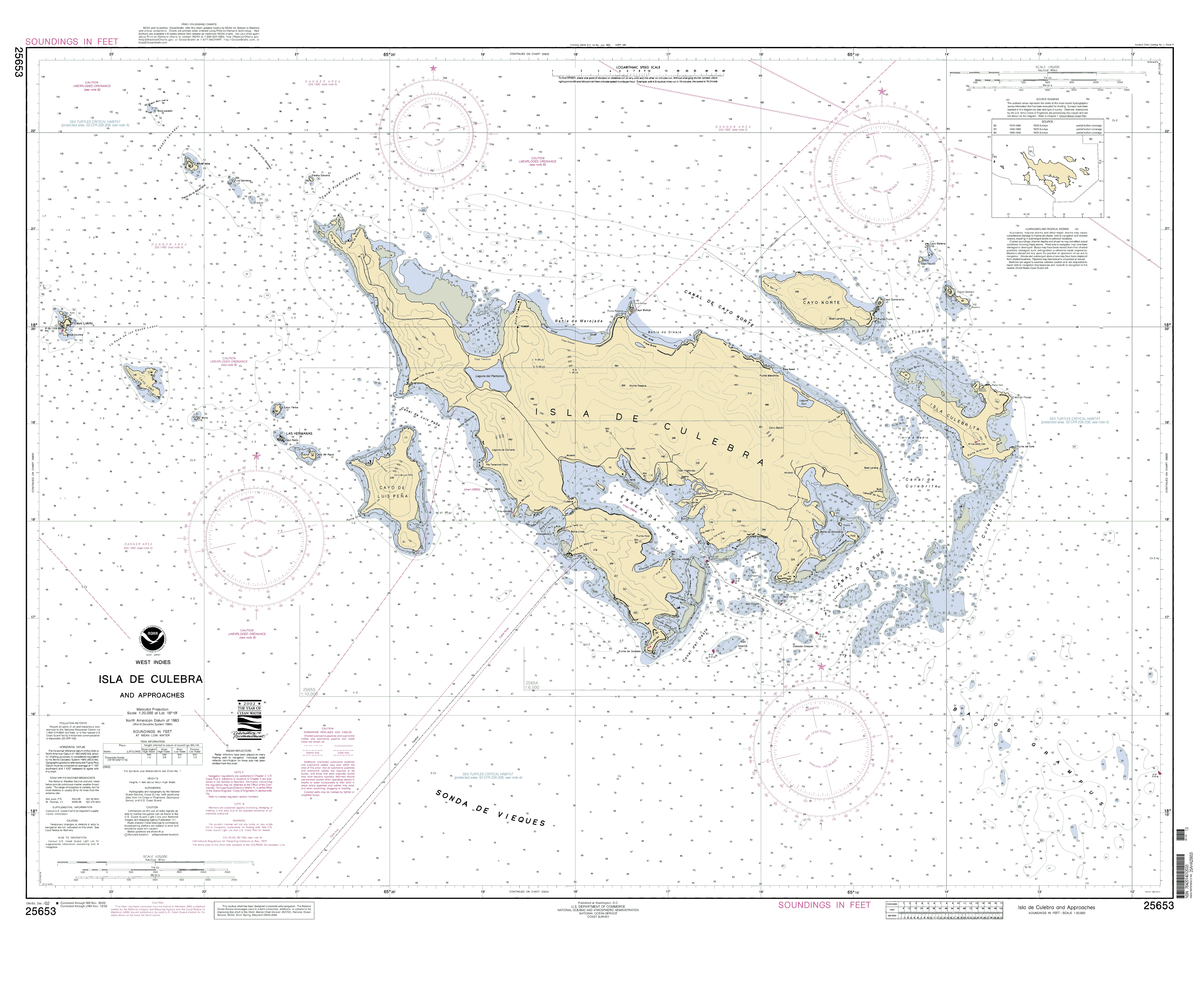 Culebra Island, Puerto Rico, nautical chart, scale 1:20,000